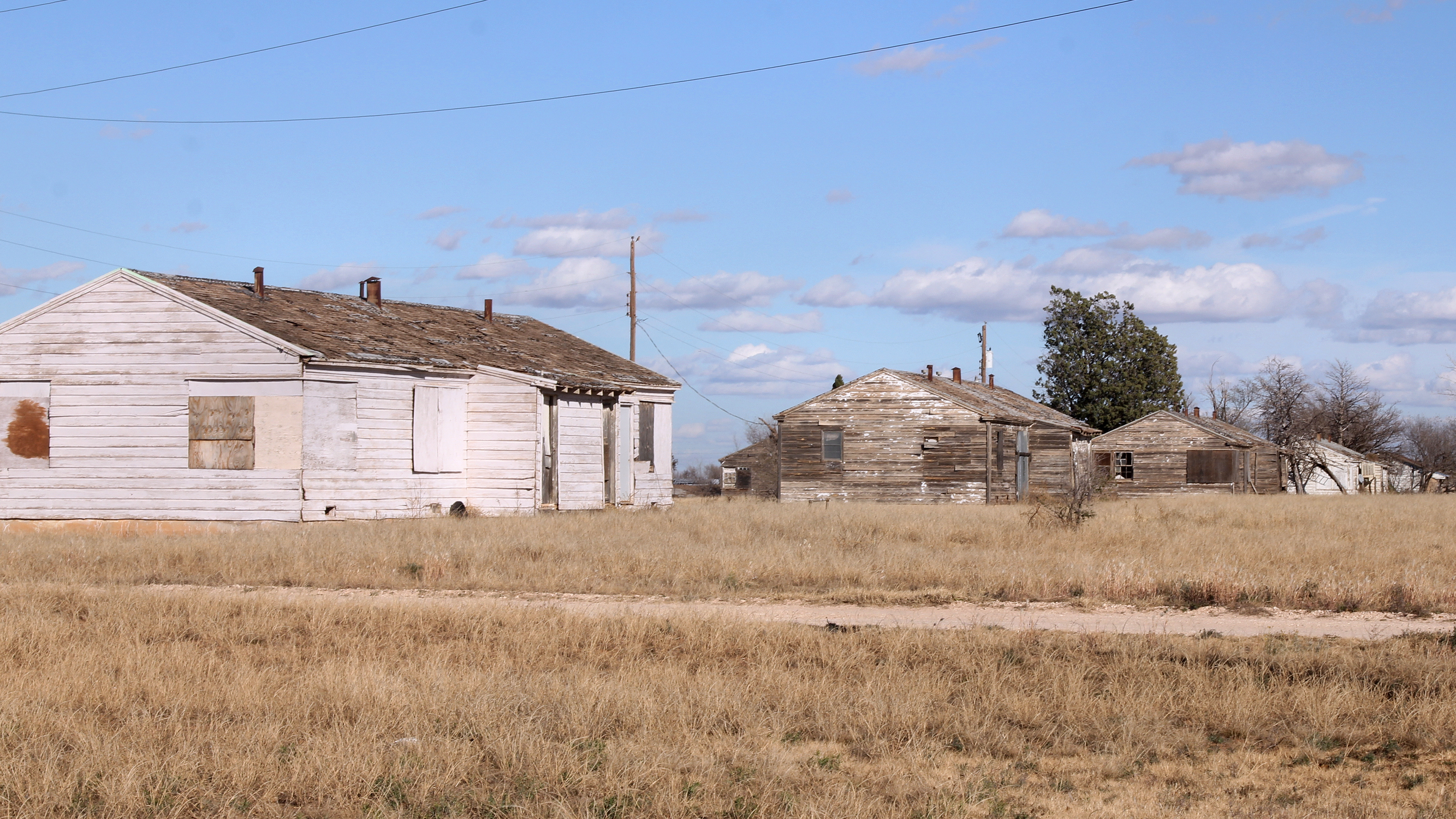 Derelict buildings in Los Ybanez, Texas, United States that were part of the Lamesa Farm Works Community. The Farm Security Administration built the community for migrant farm workers in 1942. The community operated until 1980.